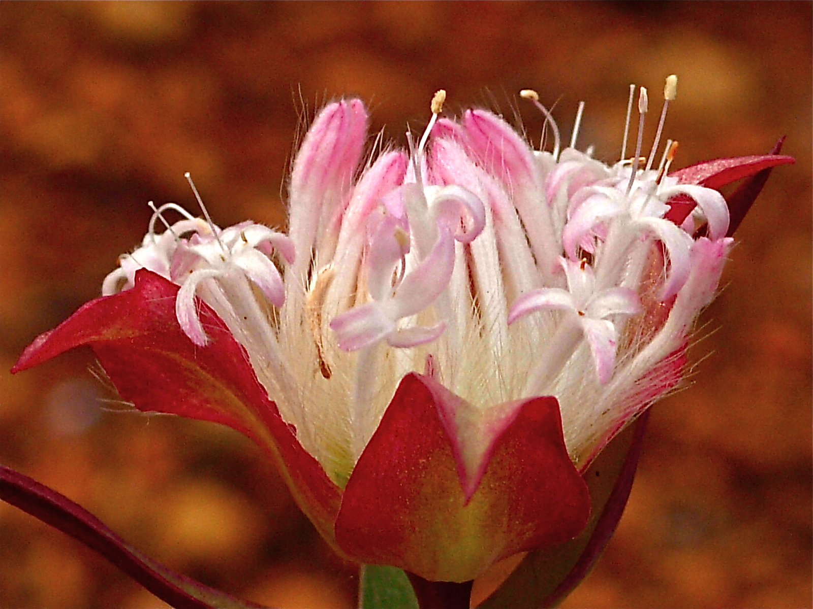 Pimelea spectabilisat Strettle Road Reserve Glen Forrest, Western Australia